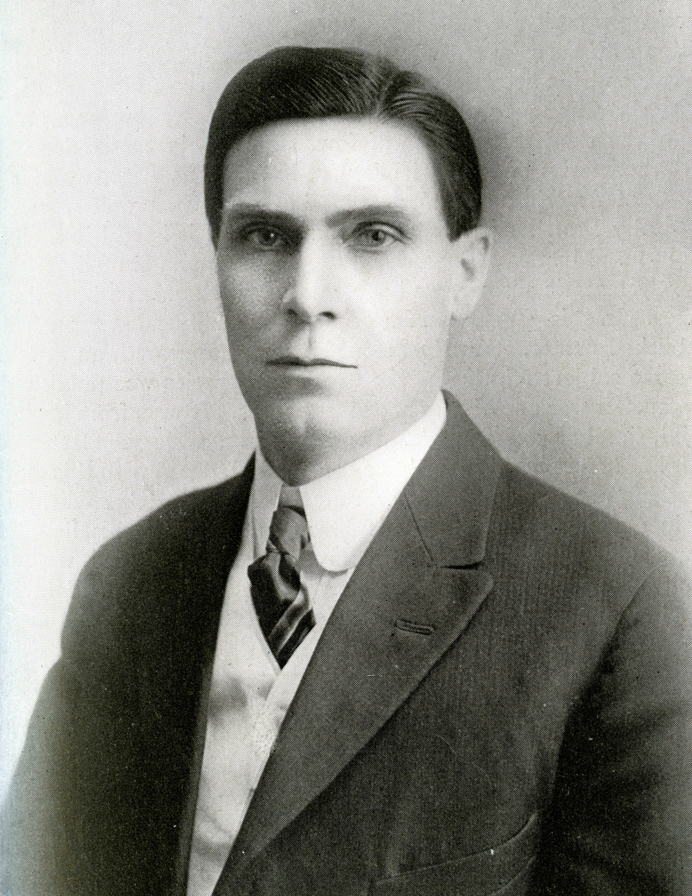 A photograph of mycologist Fred Jay Seaver, born 1877, died 1970. Scanned from front cover of journal by uploader, and minor restoration performed: removed library stamp and fixed some small scratches.